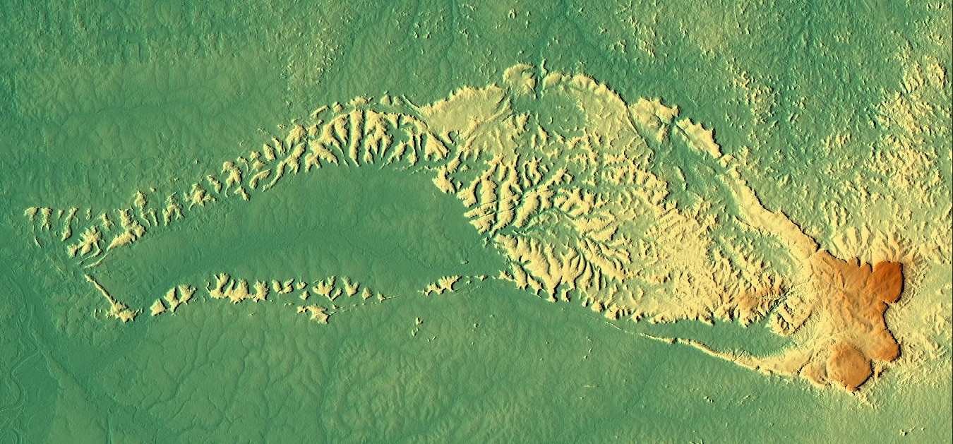 A topographic map of Serra dos Pacaás Novos, in Rondônia, Brazil.